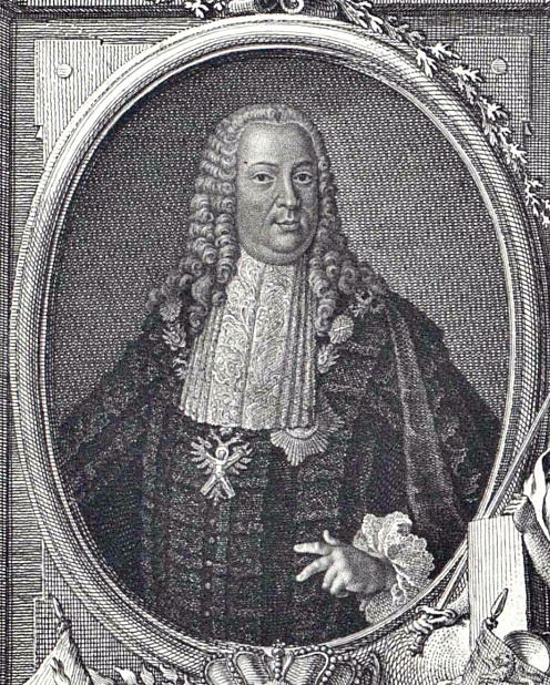 Fürst Karl Philipp zu Hohenlohe-Bartenstein (1702-1763)